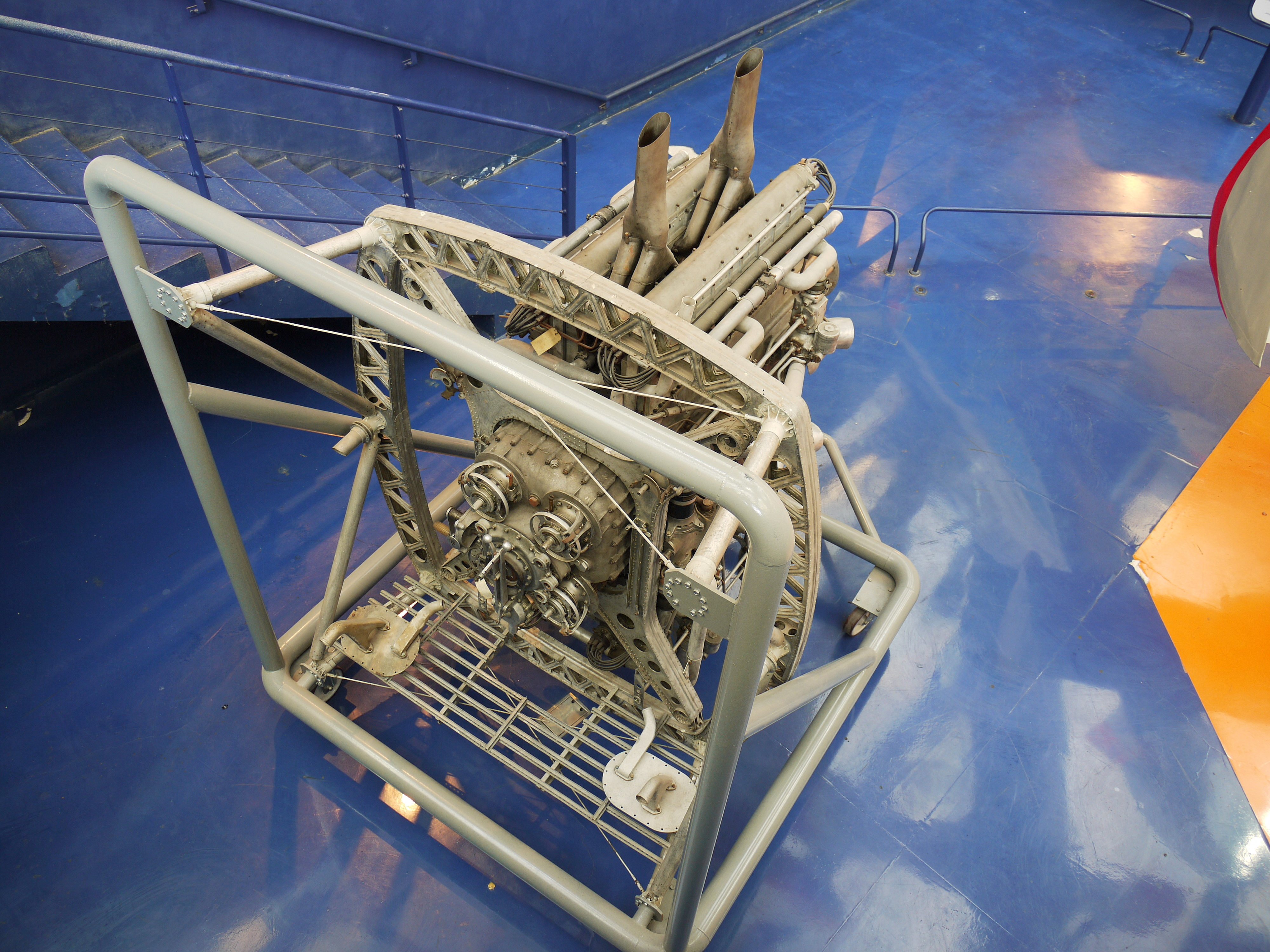 Aircraft engine Breguet Bugatti 32B 1000 HP (1925), Museum of Air and Space Paris, Le Bourget (France)